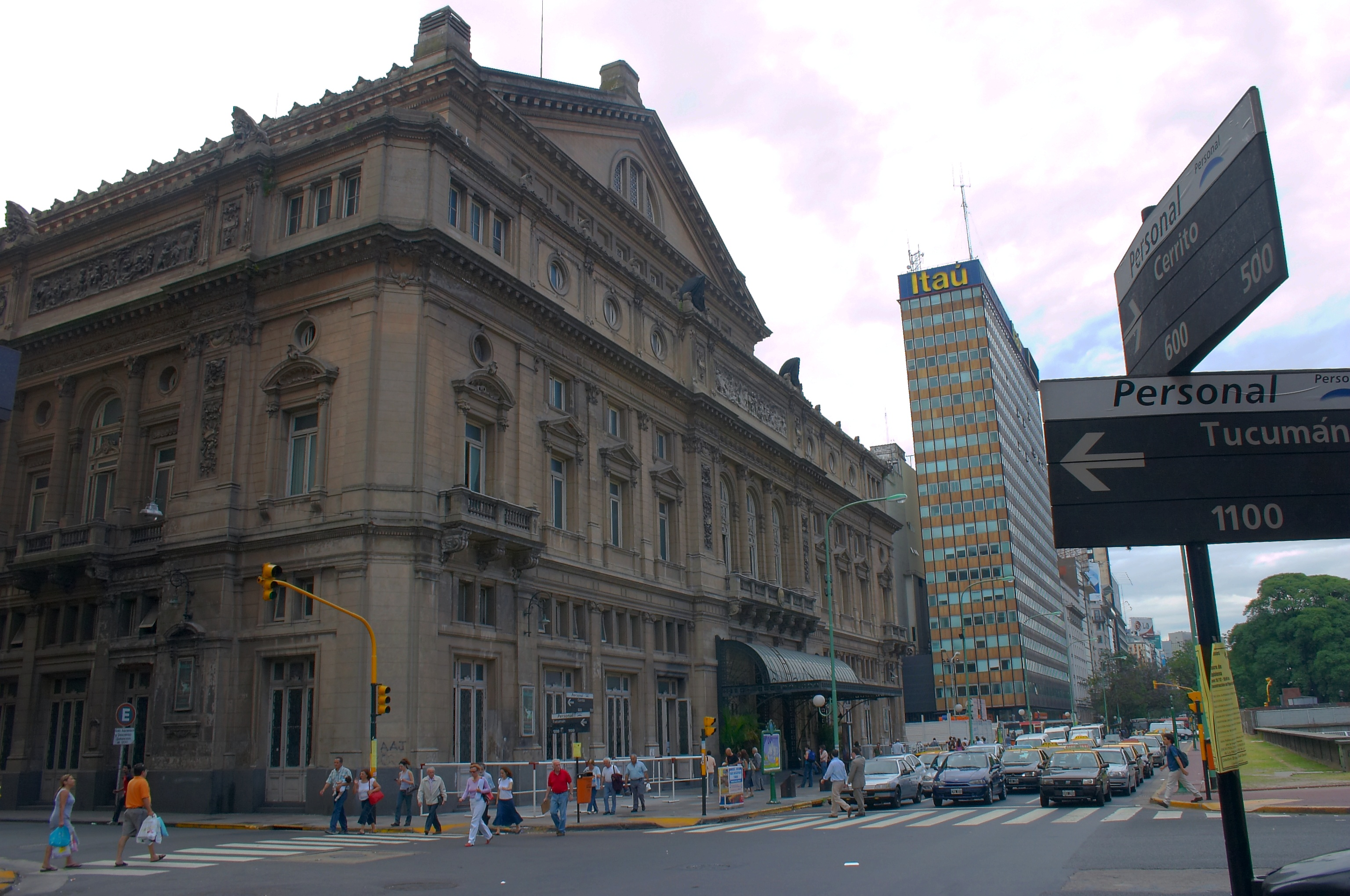 Teatro Colón building, Buenos Aires, Argentina.